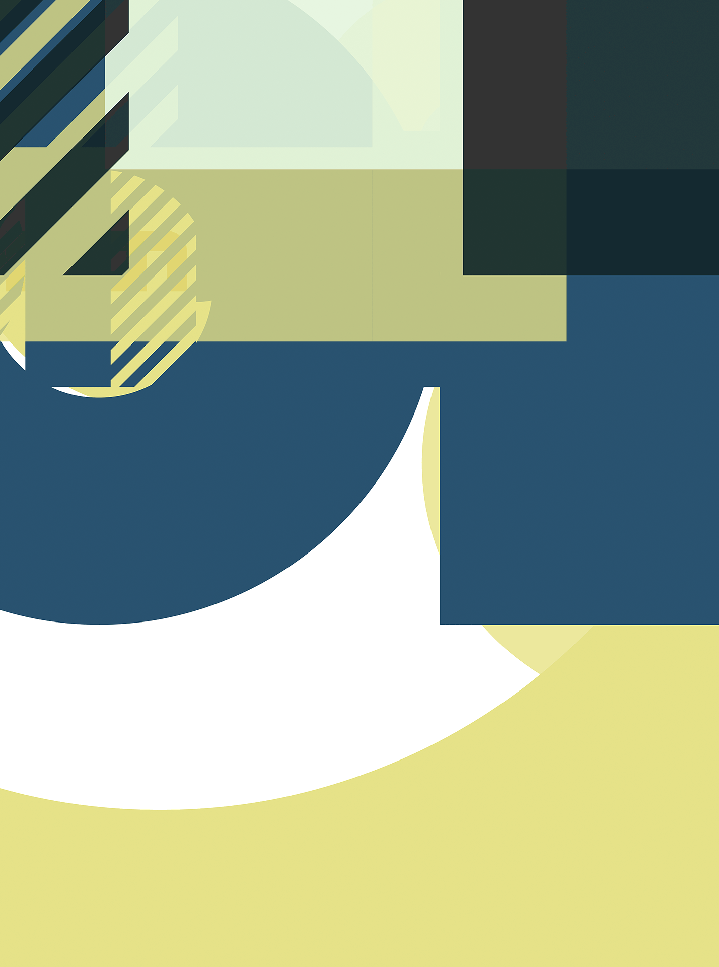 Digital Print on Handmade Paper